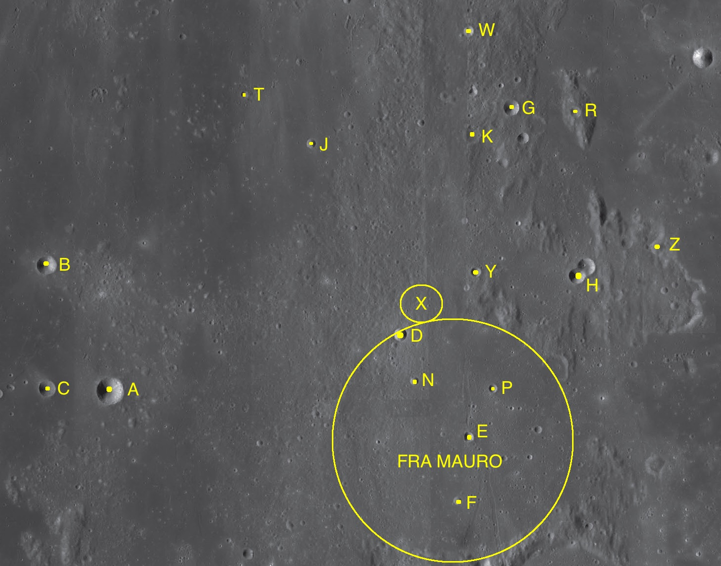 Part of the chart LAC-76